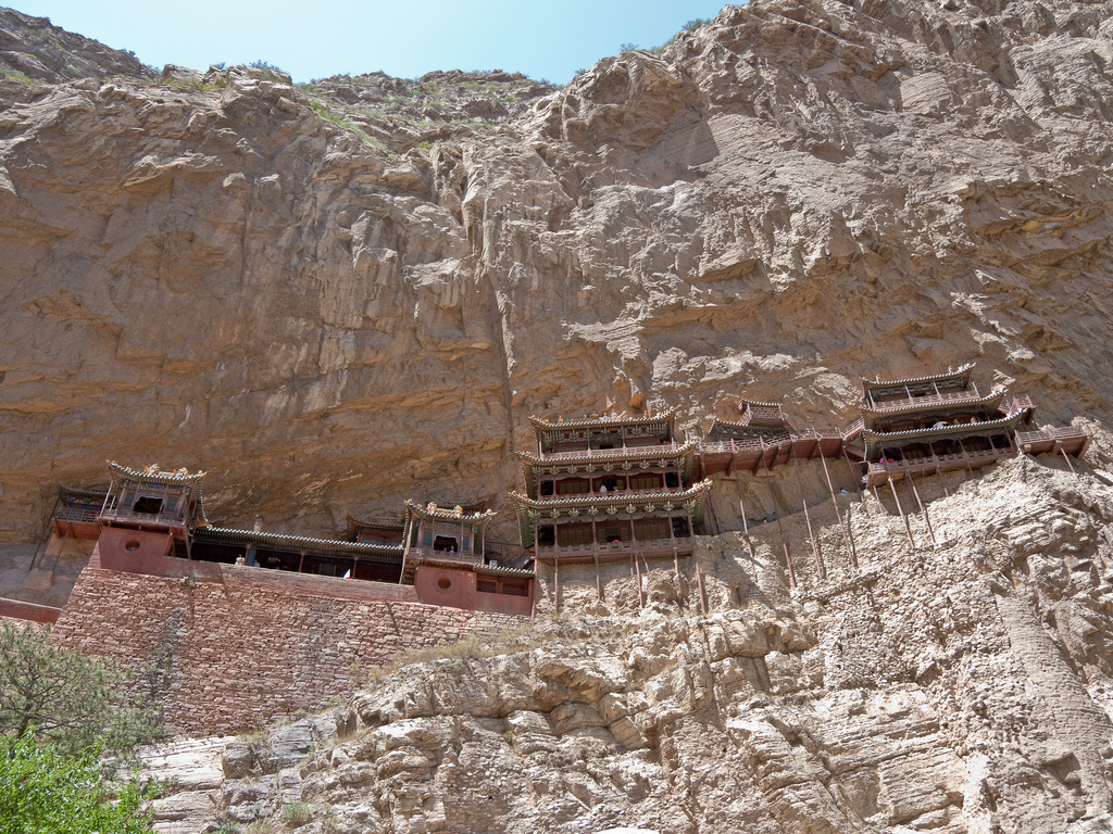 The Hanging Temple or Hanging Monastery near Mount Heng, China.